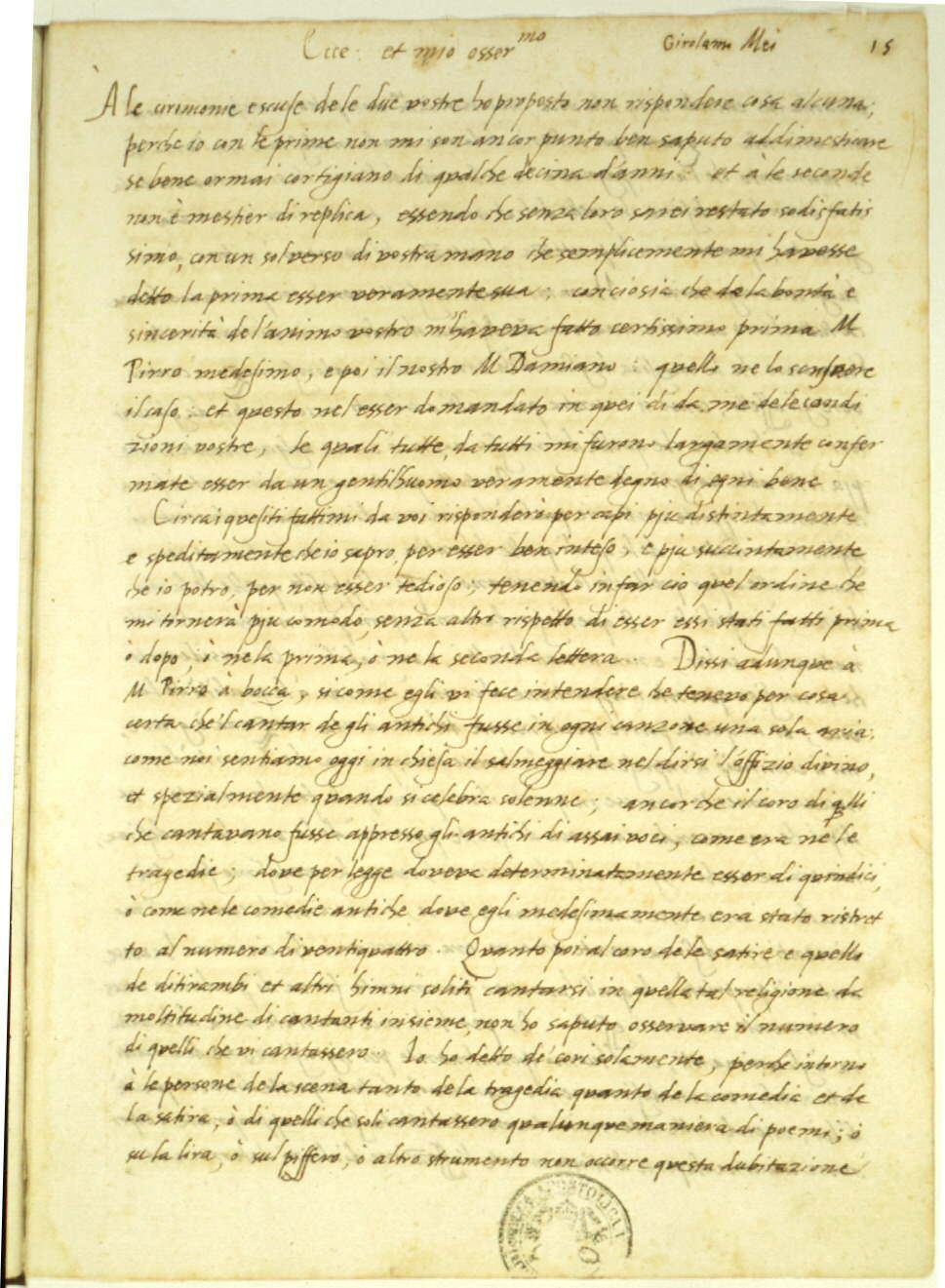 Letter of Girolamo Mei to Vincenzo Galilei (May 8, 1572) From [1]